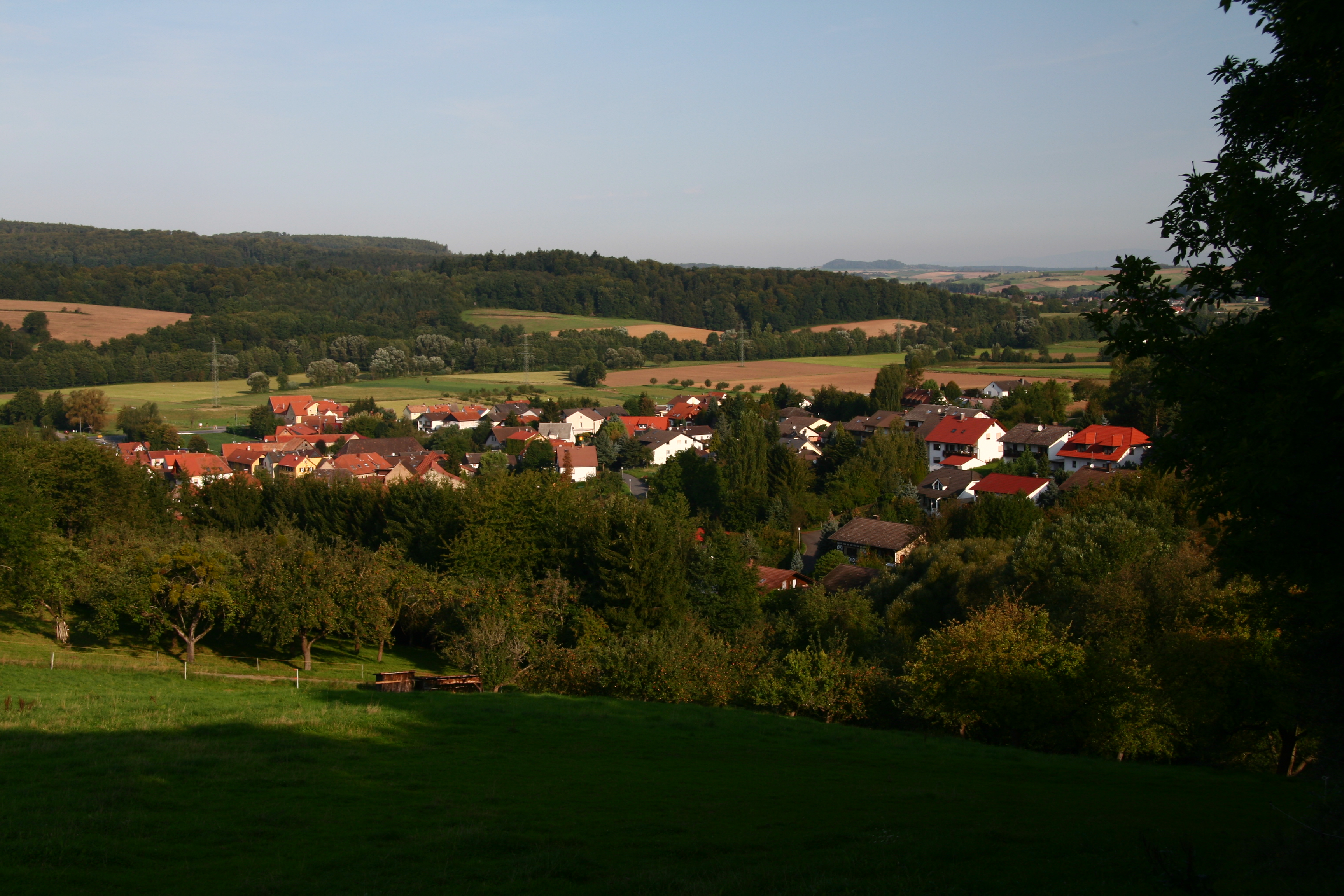 Panoramic view over Nieder-Kainsbach